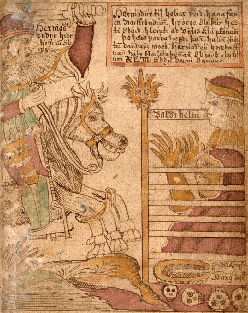 An illustration of Hermóðr riding to Baldr in Hel, from an Icelandic 18th century manuscript.